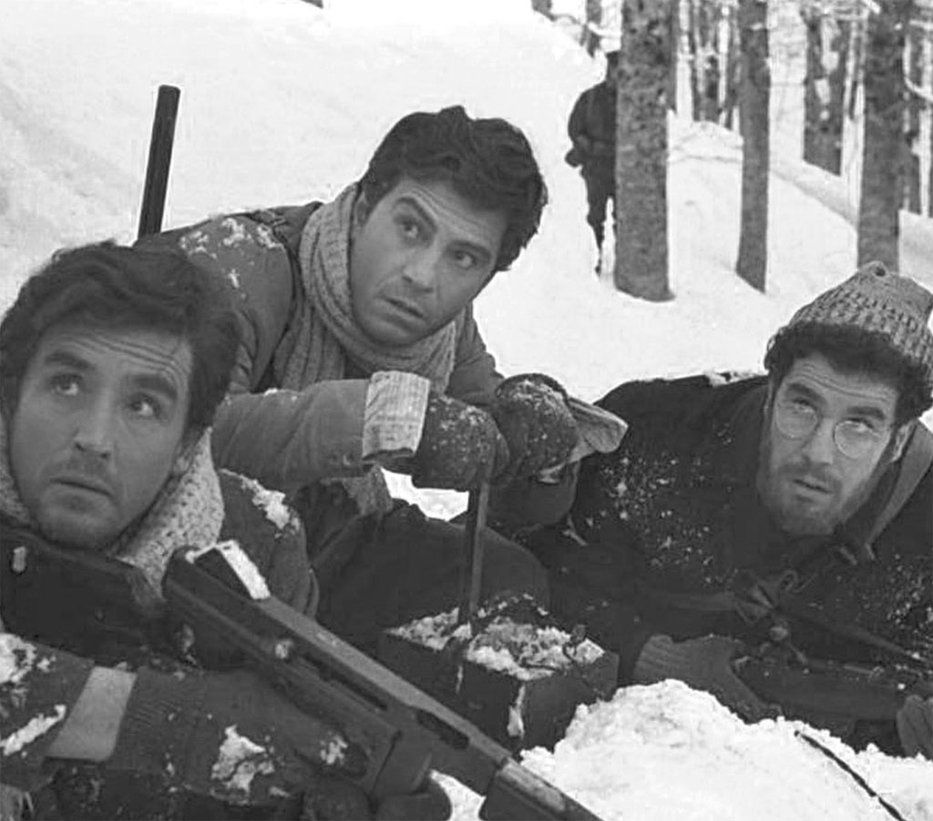 screenshot from the Italian film C'eravamo tanto amati (1974)